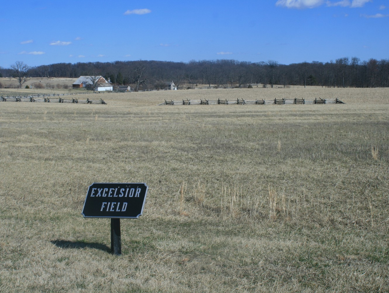 Excelsior field in Gettysburg buttlefield